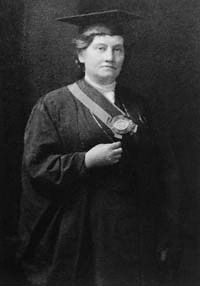 The women's suffragist Margaret Nevinson in 1910, by Lena Connell.